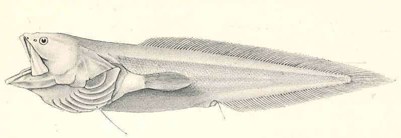 Saccogaster maculata, from the Bay of Bengal, 193-276 fathoms; male. The female is viviparous Subject: Saccogaster, Ophidiiformes Tag: Fish